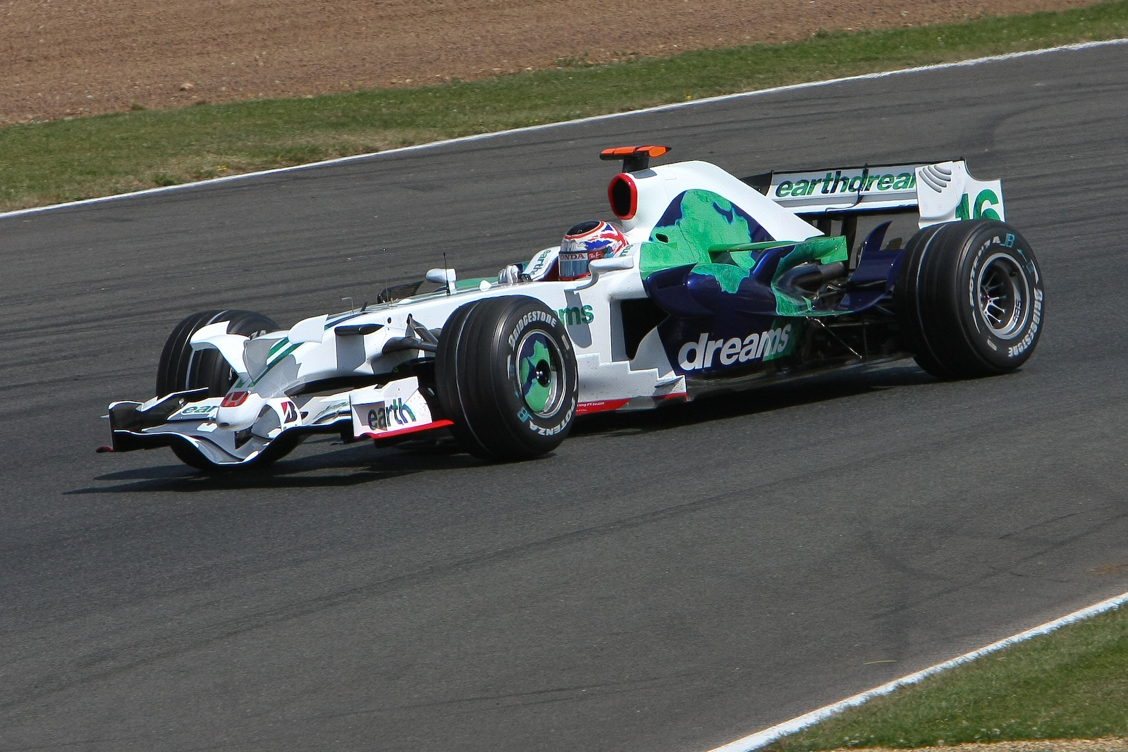 Jenson Button driving for Honda F1 at the 2008 British Grand Prix.